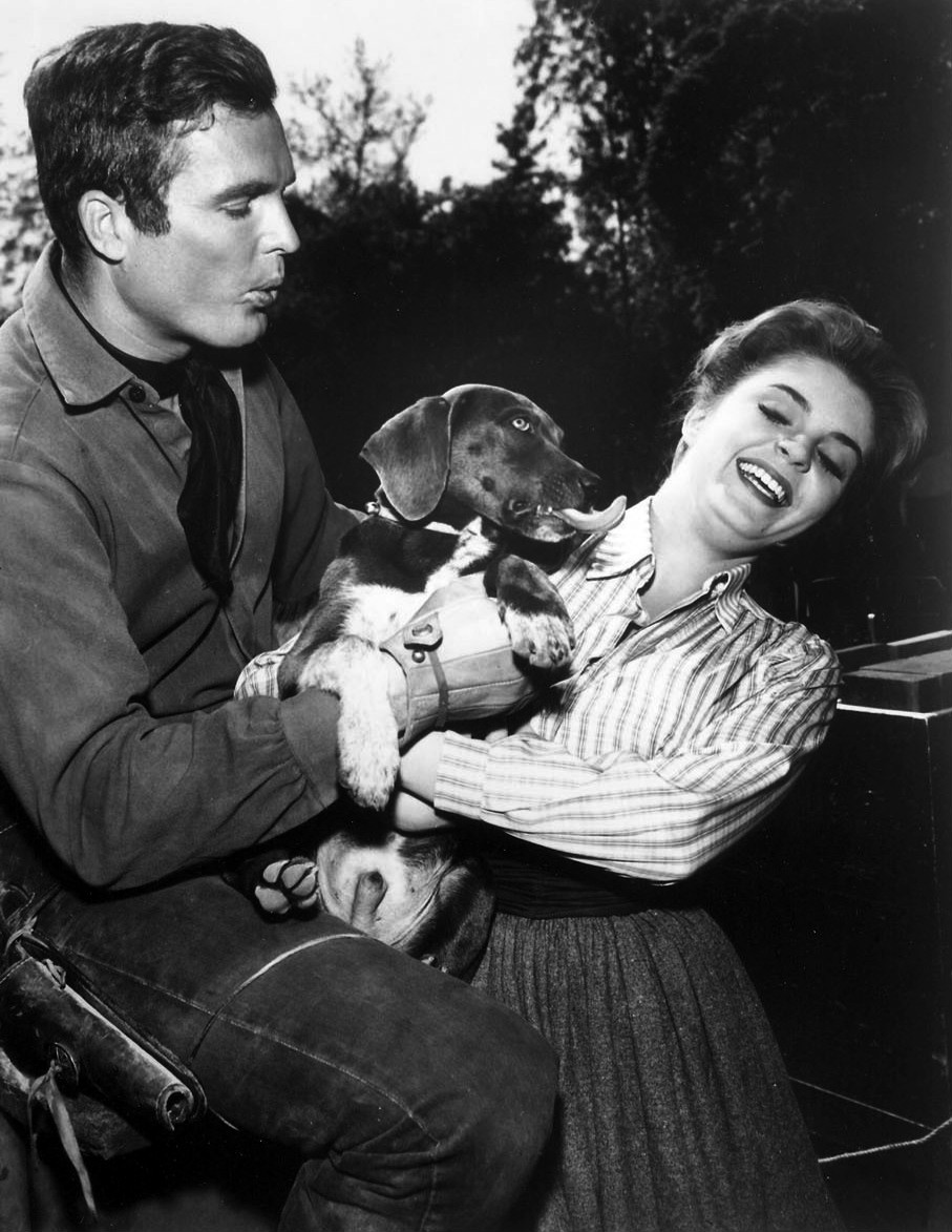 Photo of Ty Hardin as Bronco Layne and Susan Seaforth as a guest star on the television program The Cheyenne Show.